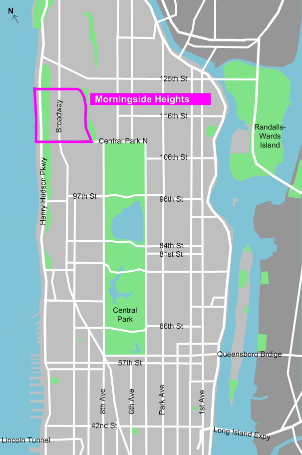 location map of Morningside Heights, Manhattan, New York City